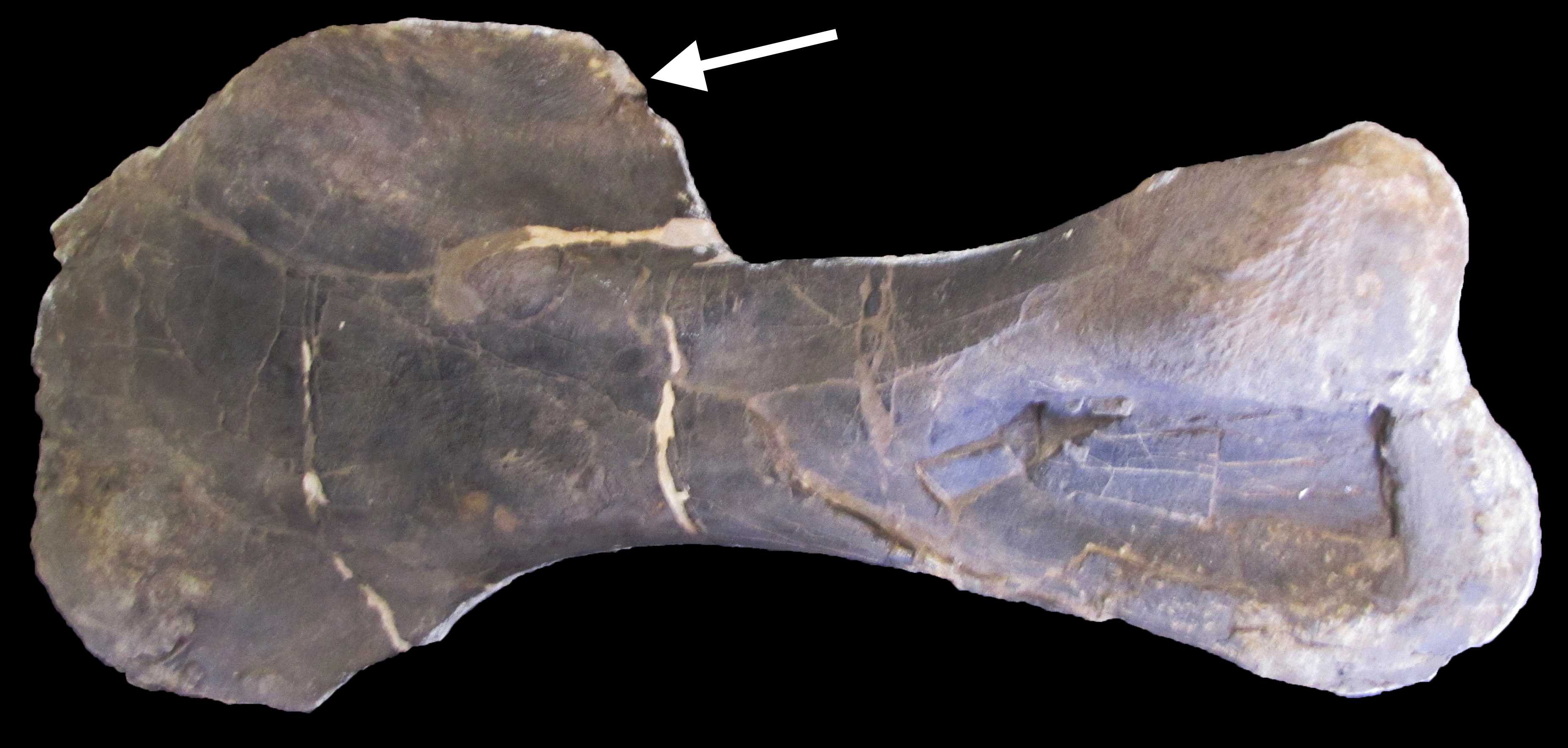 Right humerus belonging to Miragaia longiculum (original) showing the large deltopectoral crest.